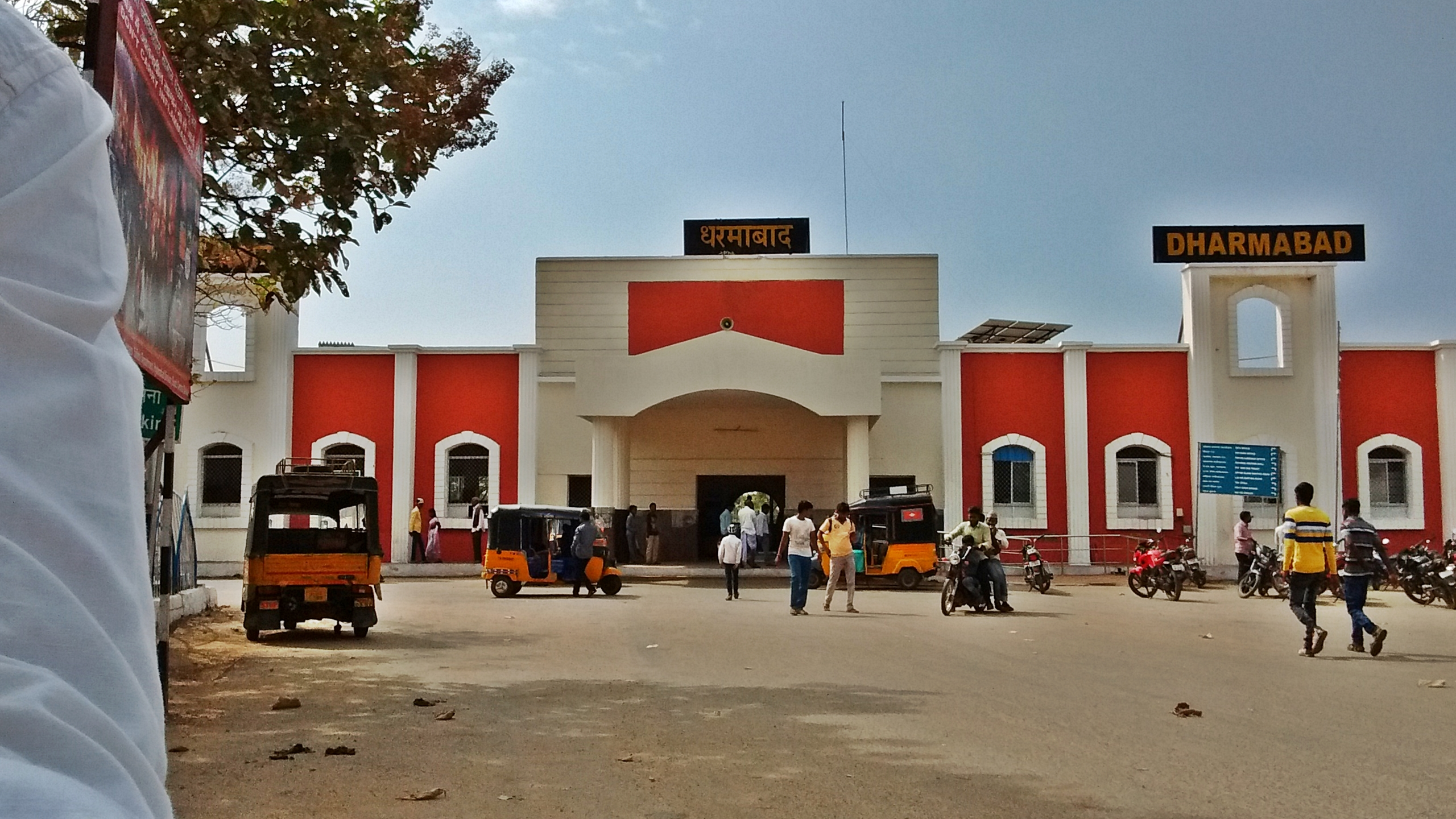 Dharmabad Railway Station serves the town of Dharmabad in the district of Nanded. It is situated on Secunderabad - Manmad Section of South Central Railway Zone, India. The major railway stations near by are Nizamabad and Nanded, which are situated at a distance of 39 and 72 kilometers respectively in opposite directions.